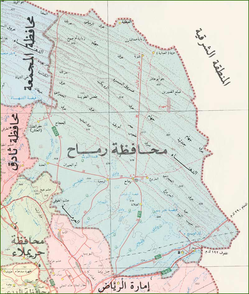 Rimah Governorate